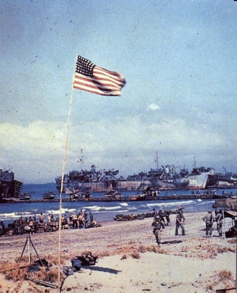 United States Navy tank landing ship USS LST-555 unloading cargo on the United States Sixth Army beachhead at Lingayen Gulf on Luzon in the Philippine Islands